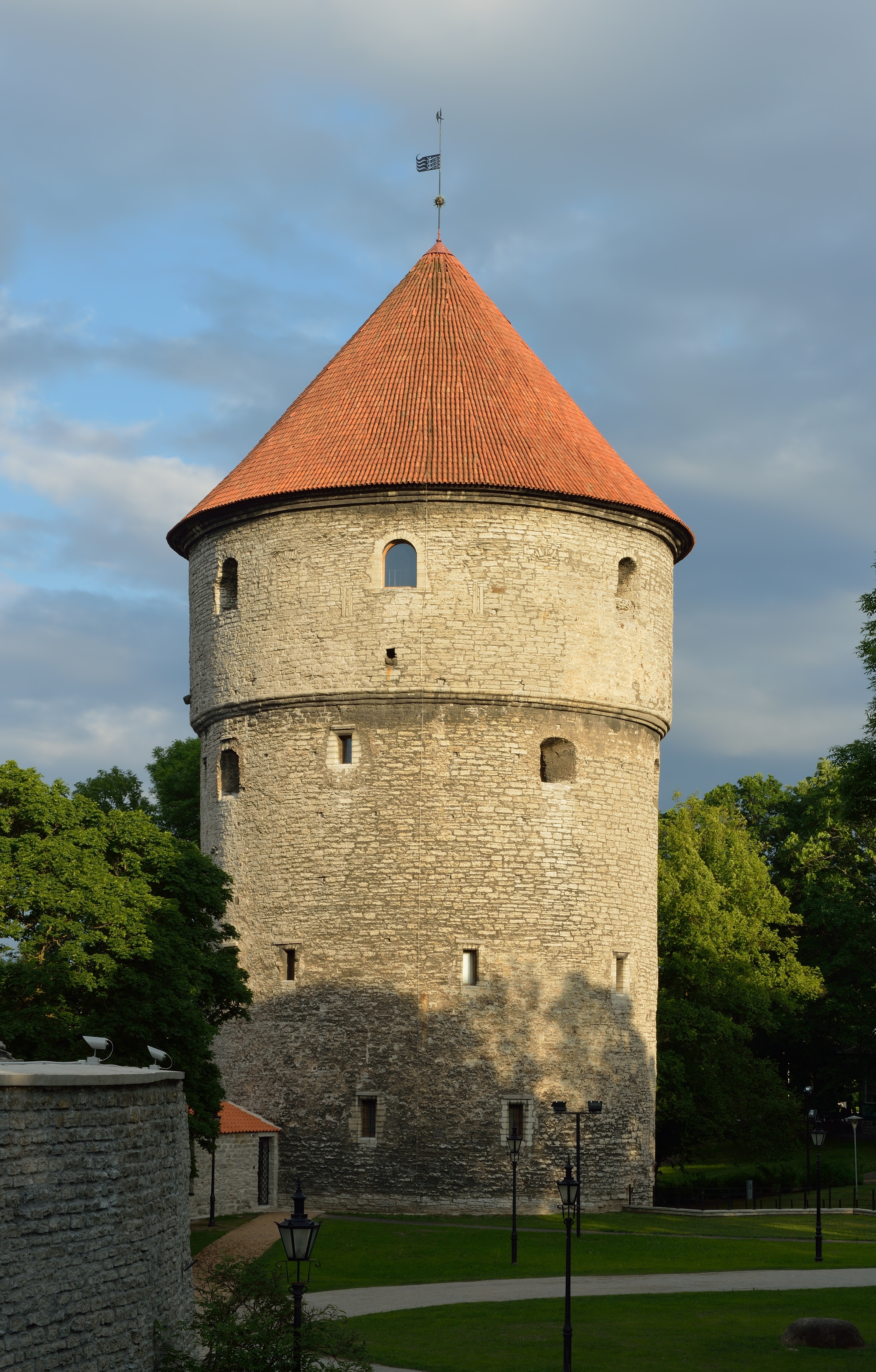 Kiek in de Kök – an artillery tower in Tallinn was built in 1475–1483.